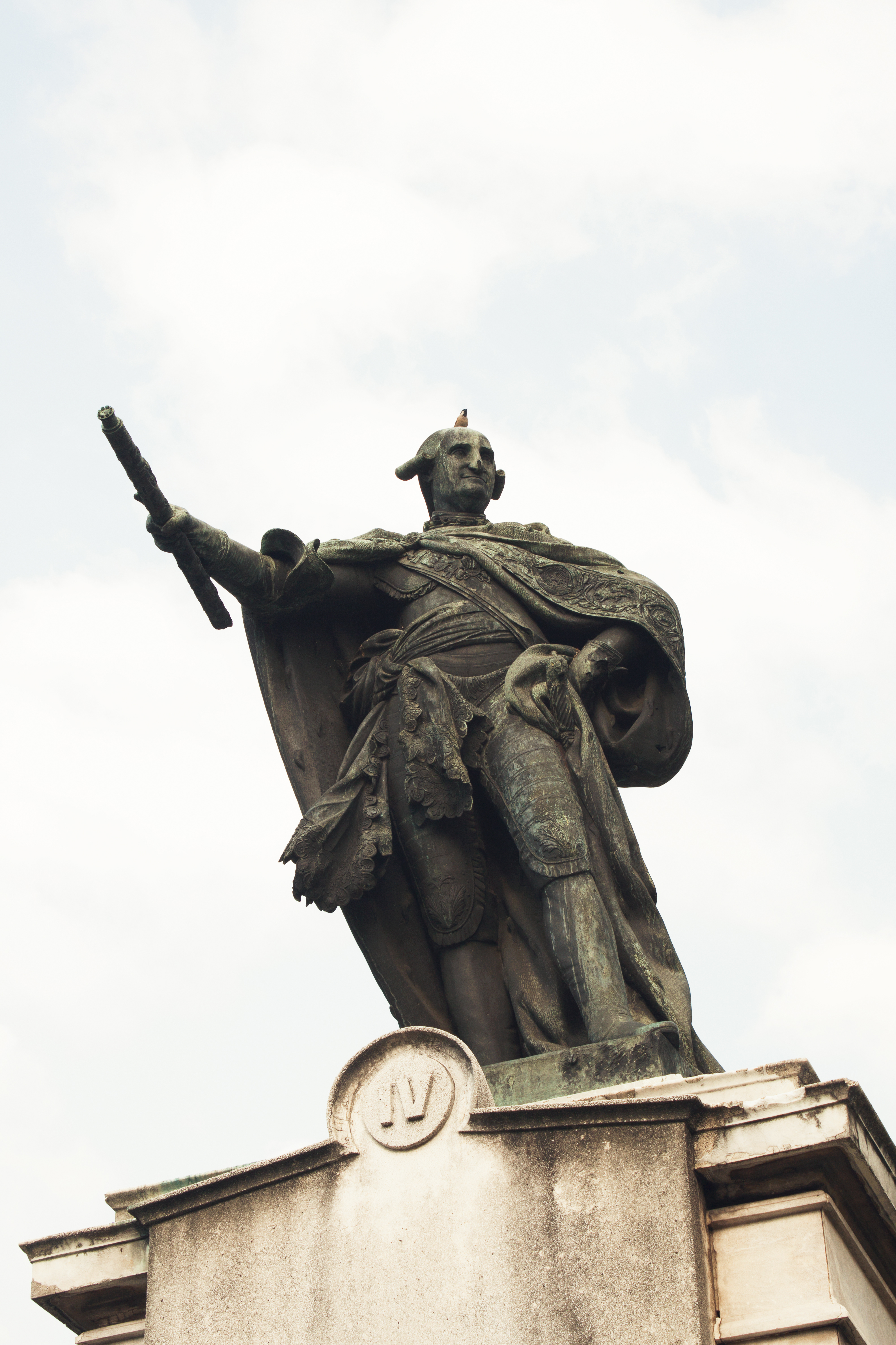 The king of Spain who brought the first smallpox vaccine to the Philippines.